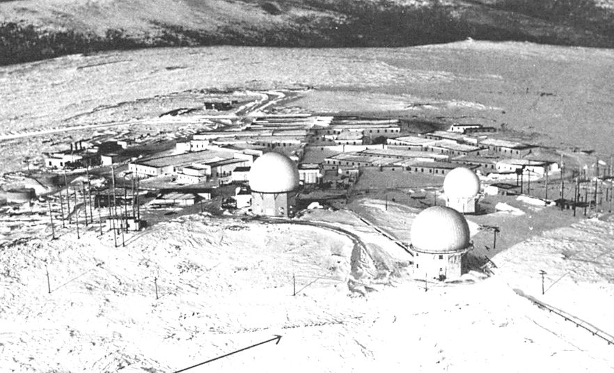 Murphy Dome Air Force Station, Alaska